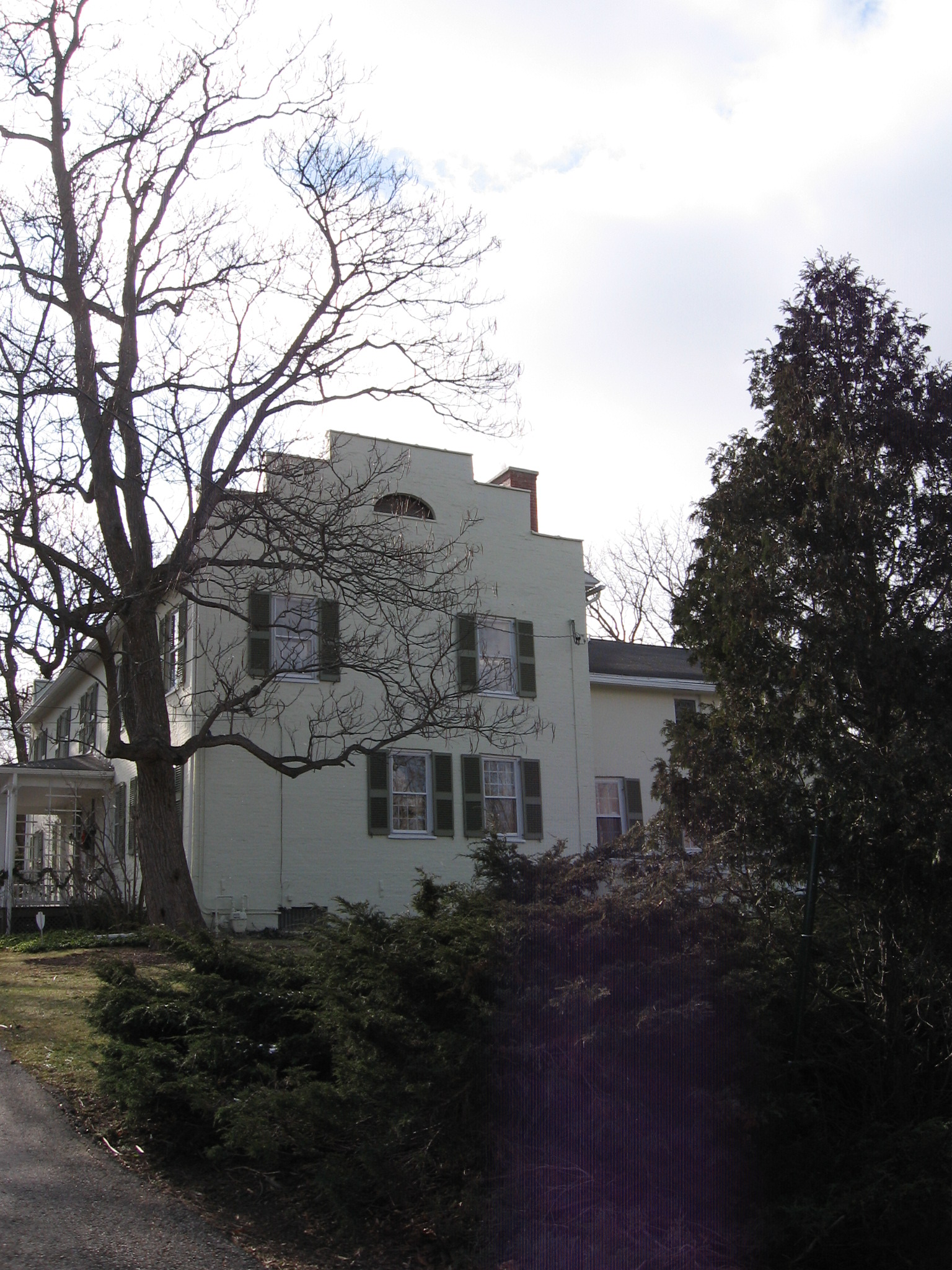 Thaddeus Chapin house, stepped gable end, 128 Thad Chapin Street, Canadaigua, NY.